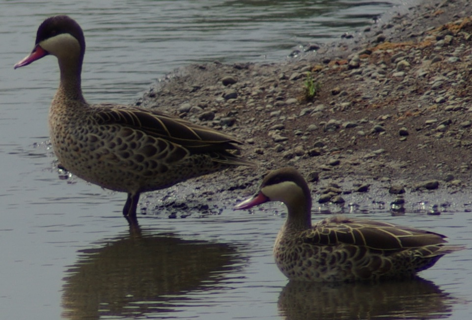 Pair of Red-billed Duck or Red-billed Teal, Anas erythrorhyncha, Sweetwaters Game Reserve, Kenya. The time stamp is 10 hours too early.